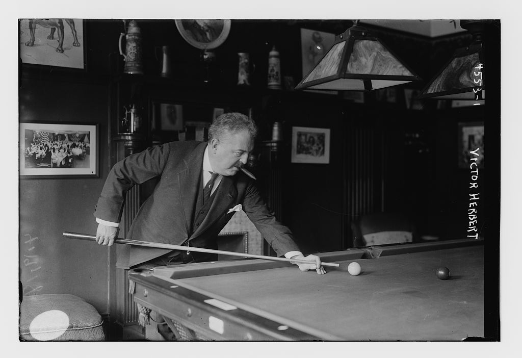 Bain News Service,, publisher. Victor Herbert [between ca. 1915 and ca. 1920] 1 negative : glass ; 5 x 7 in. or smaller. Notes: Title from data provided by the Bain News Service on the negative. Photograph shows composer and cellist Victor August Herbert (1859-1924) who was one of the founders of the American Society of Composers, Authors, and Publishers (ASCAP). (Source: Flickr Commons project, 2015) Forms part of: George Grantham Bain Collection (Library of Congress). Format: Glass negatives. Repository: Library of Congress, Prints and Photographs Division, Washington, D.C. 20540 USA, General information about the Bain Collection is available at Higher resolution image is available (Persistent URL): Call Number: LC-B2- 4553-1